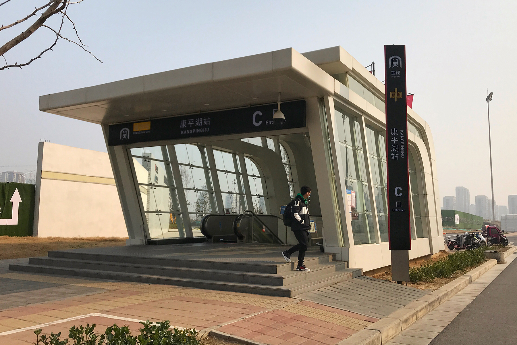 Entrance C of Kangpinghu Station